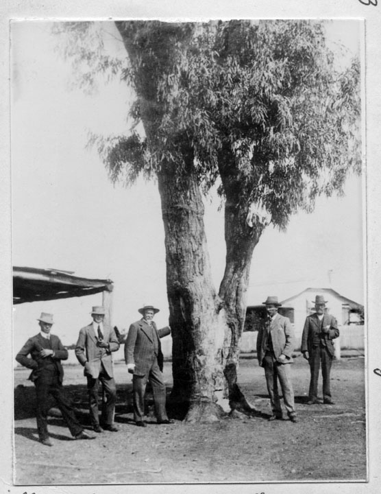 Leichhardt’s Tree at Dawson River, Taroom. (Dawson River was named by Ludwig Leichhardt on 6 November 1844. Taroom is in the Central Highlands Region.)